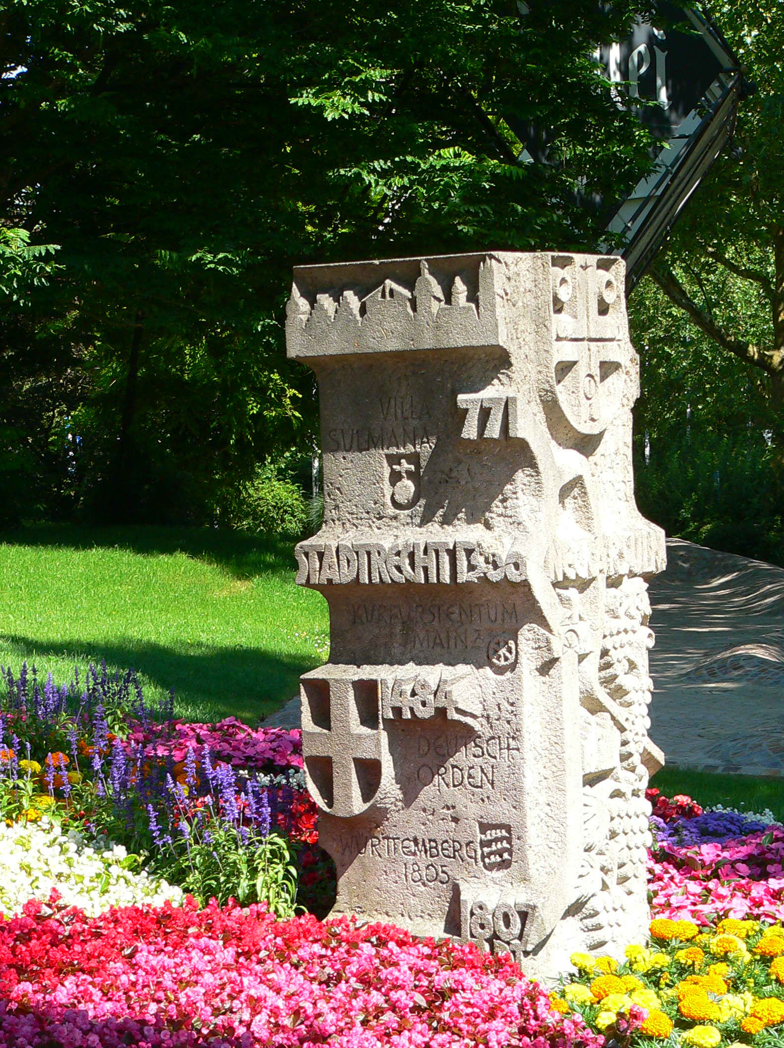 Stone Of History of the town Neckarsulm